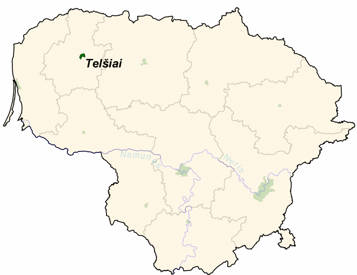 Telšiai on the map of Lithuania